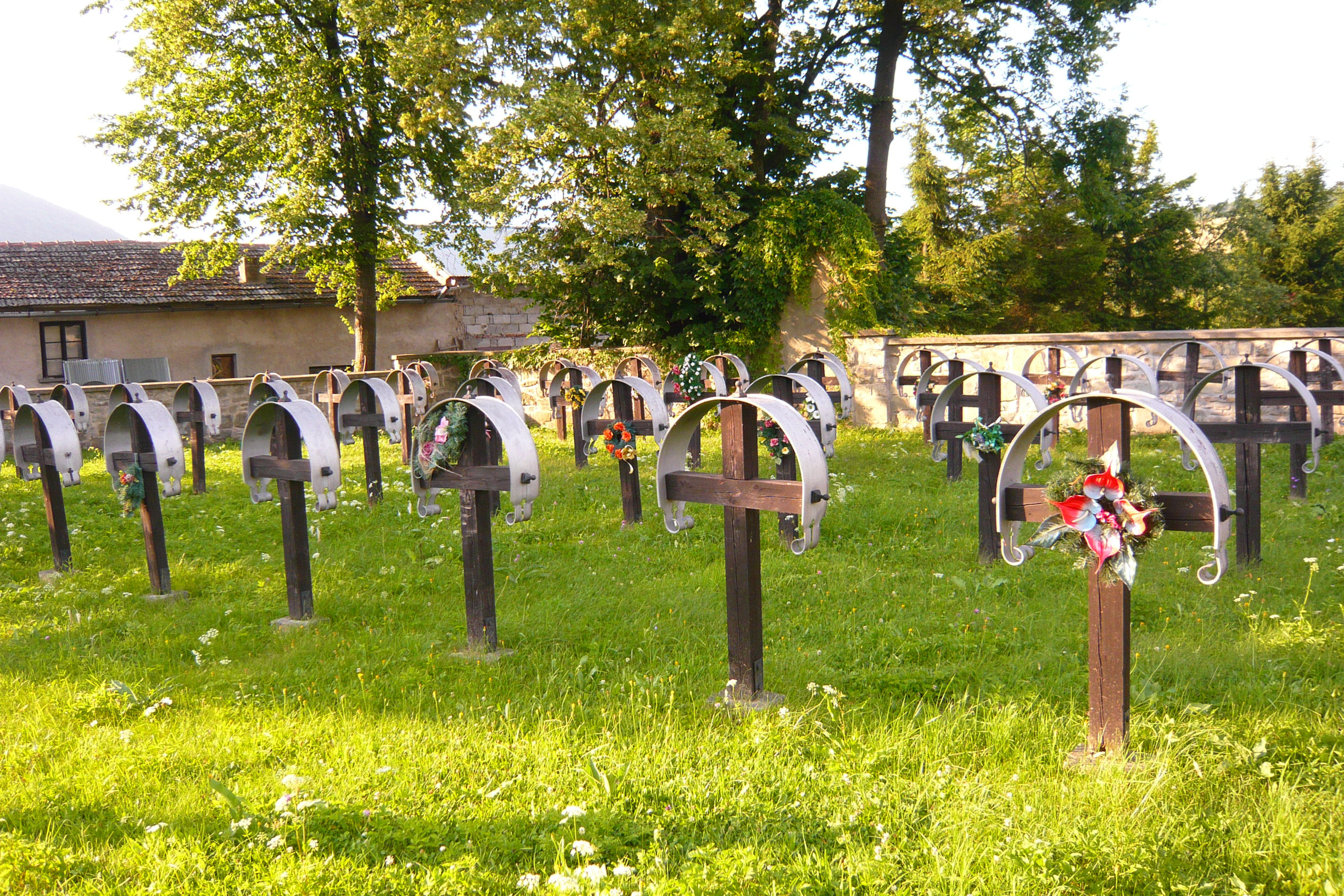 World War I Cemetery nr 57 in Uście Gorlickie